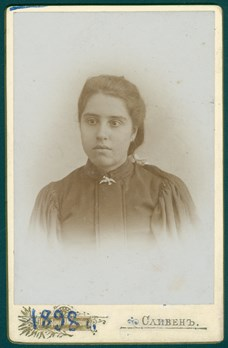 Bulgarian artist Teodora Hadzhidimitrova